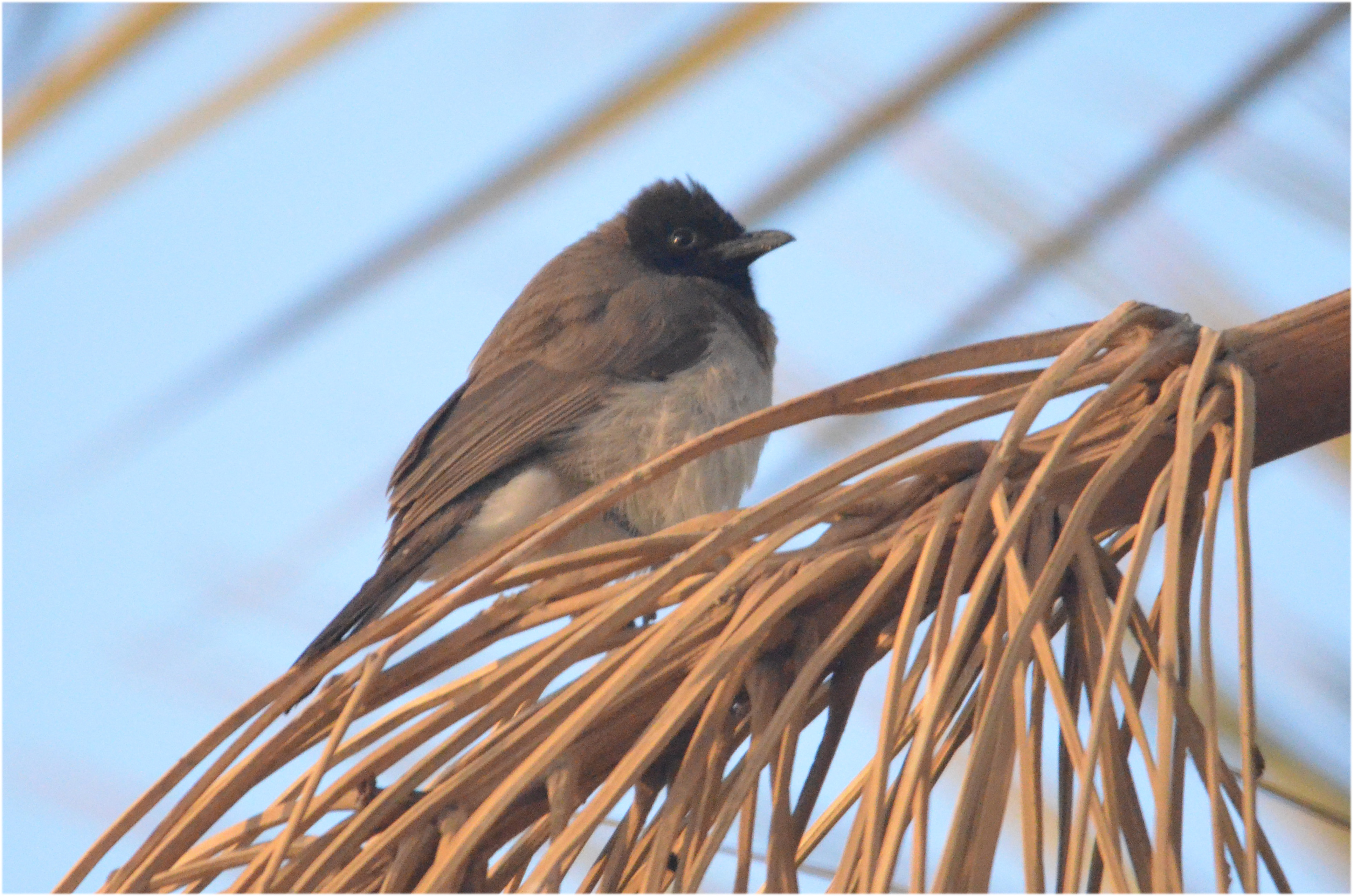 Common bulbul